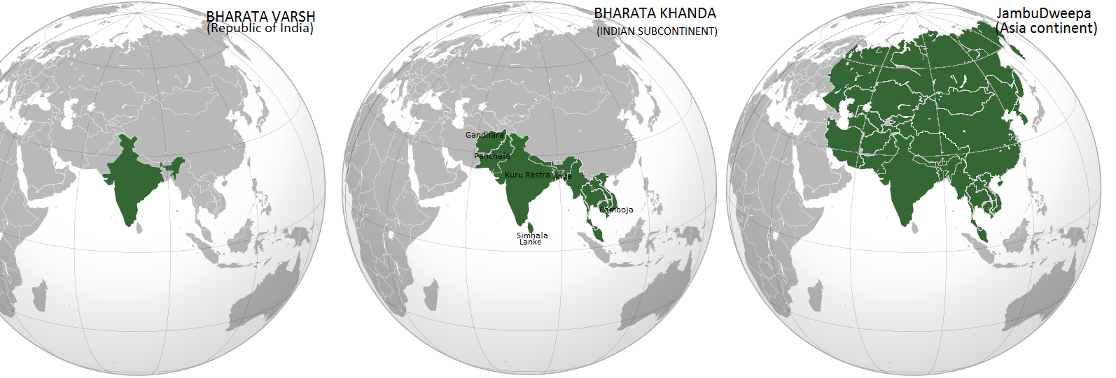 Meaning of Sanskrit Chant Bharata Varshe Bharata Khande Jambu Dweepe shown in map